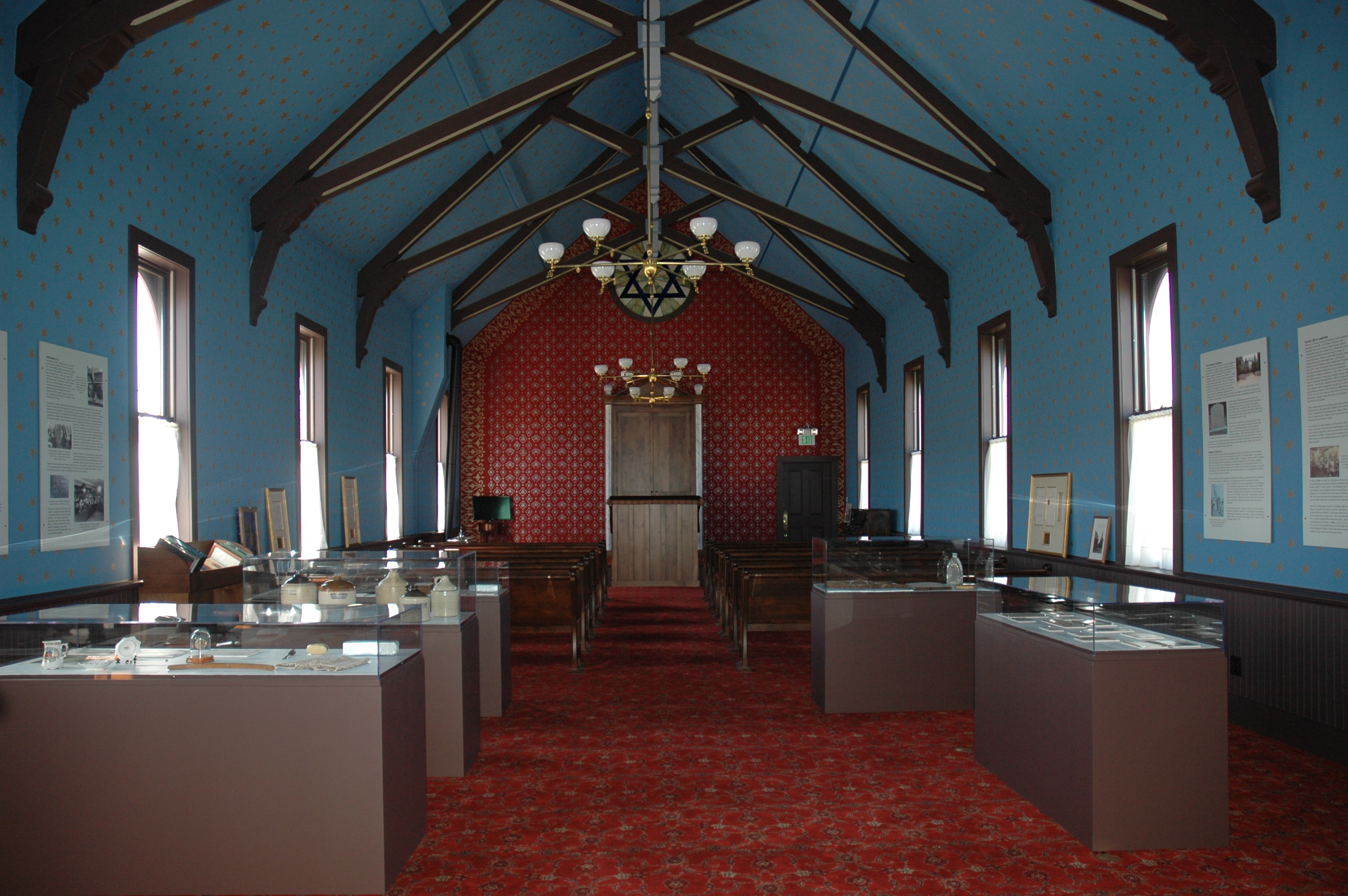 Temple Israel, Leadville, Colorado, interior, September, 2012